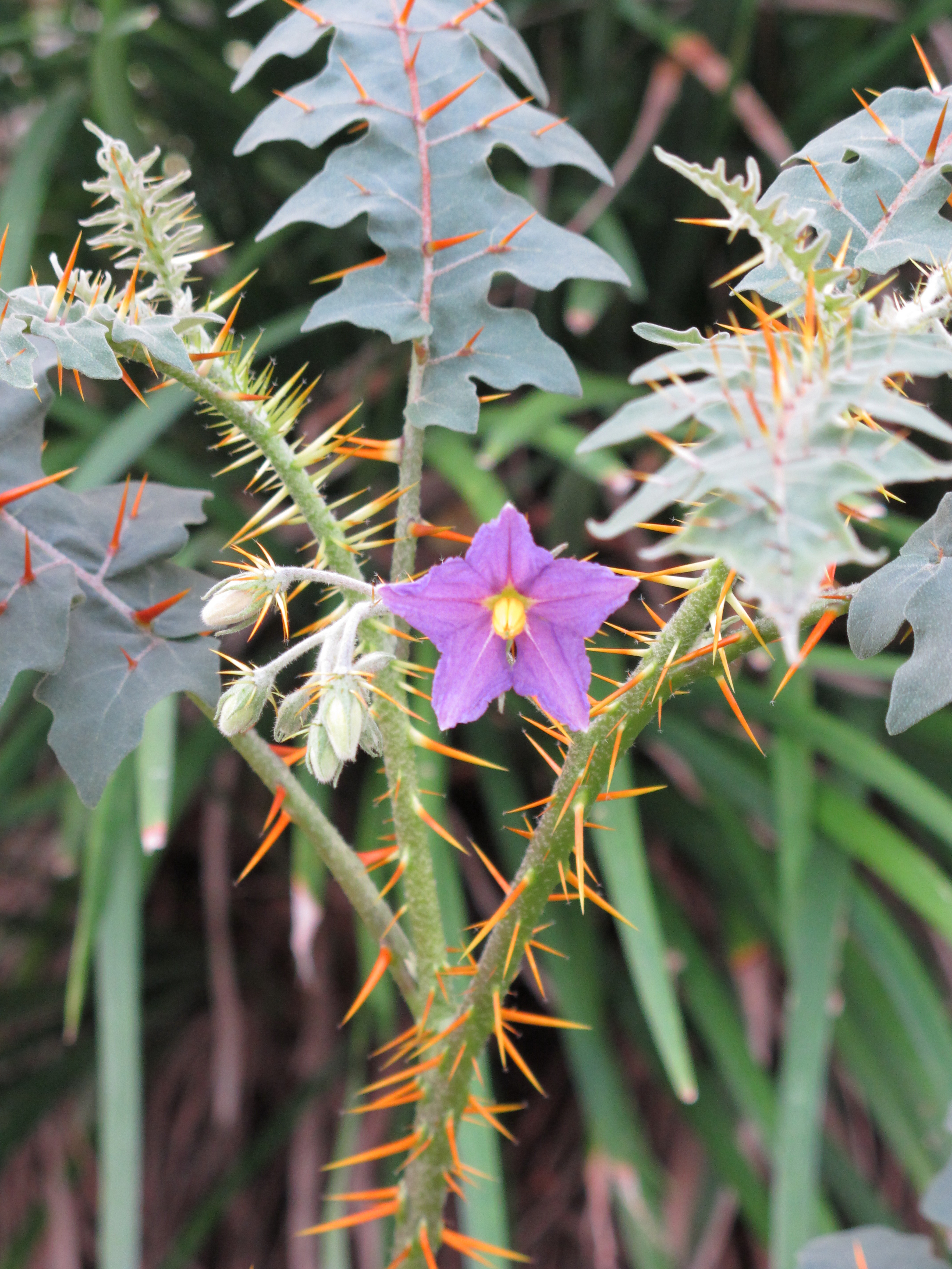 Biological Sciences Greenhouse, Florida International University, Miami, Florida, USA.